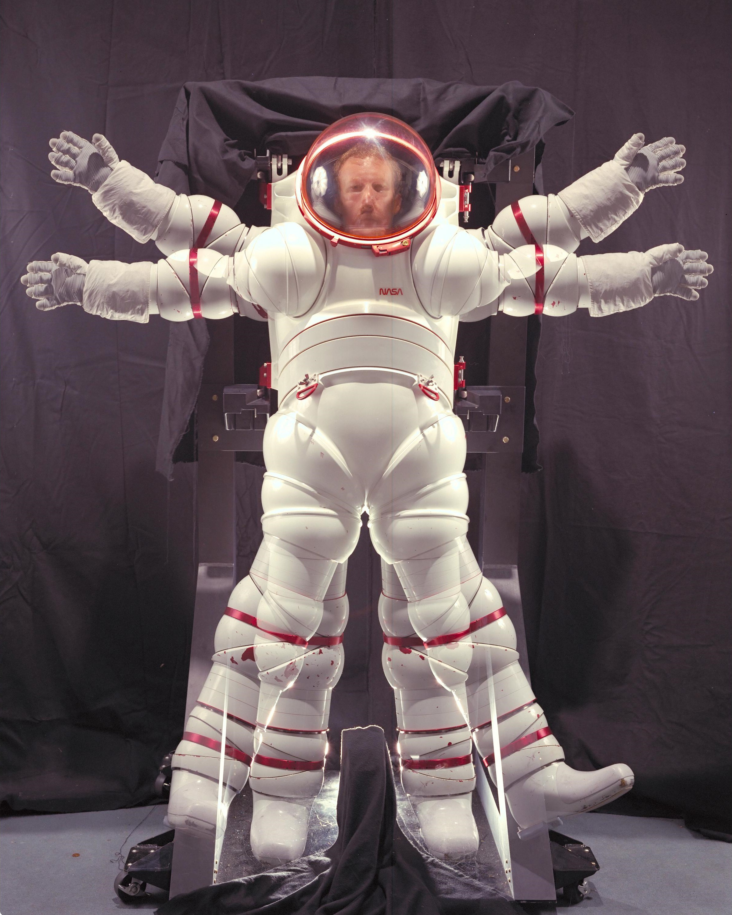 NASA Ames-X5 hard space suit in Vitruvian Man pose